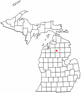 Map of U.S. state of Michigan with dot on Grayling, Michigan.